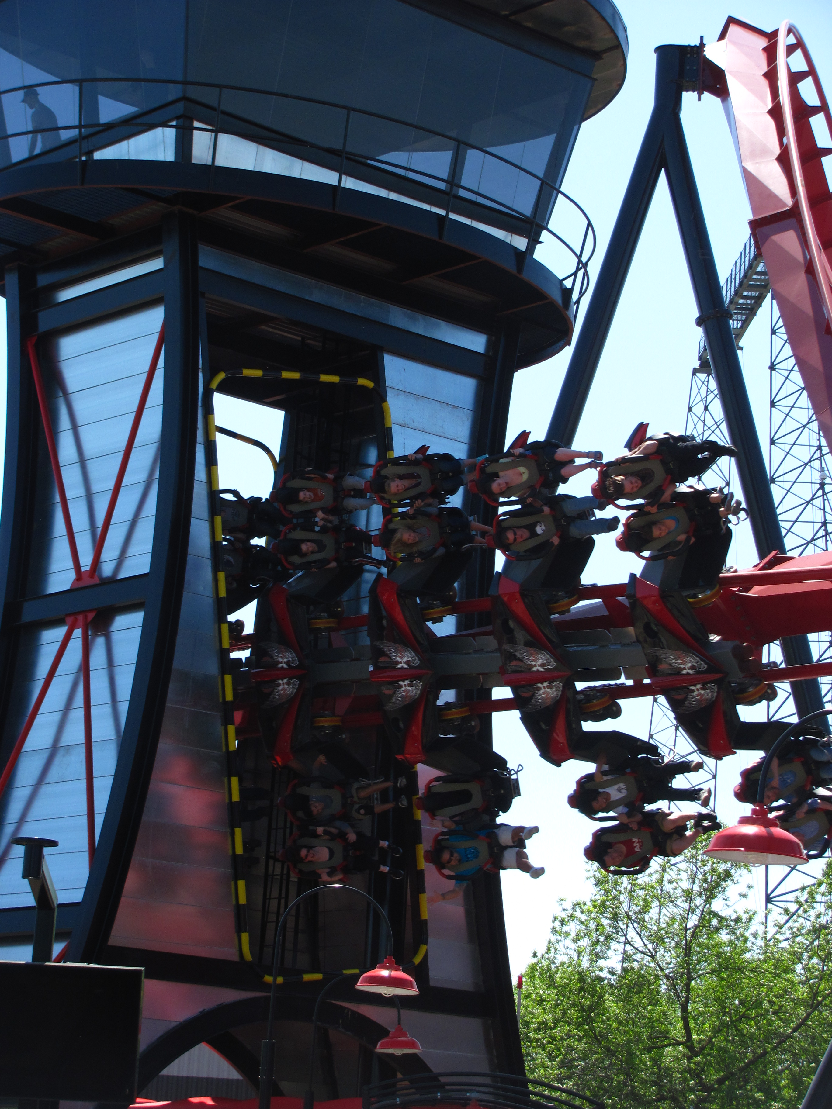 X-Flight